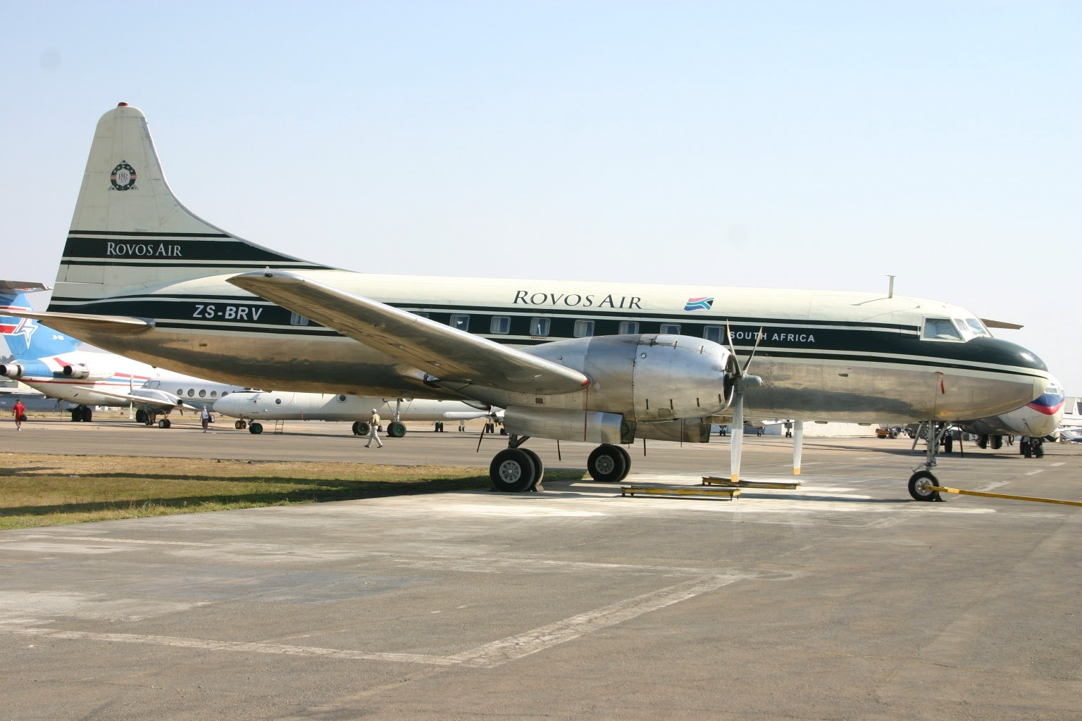 At Lanseria International Airport